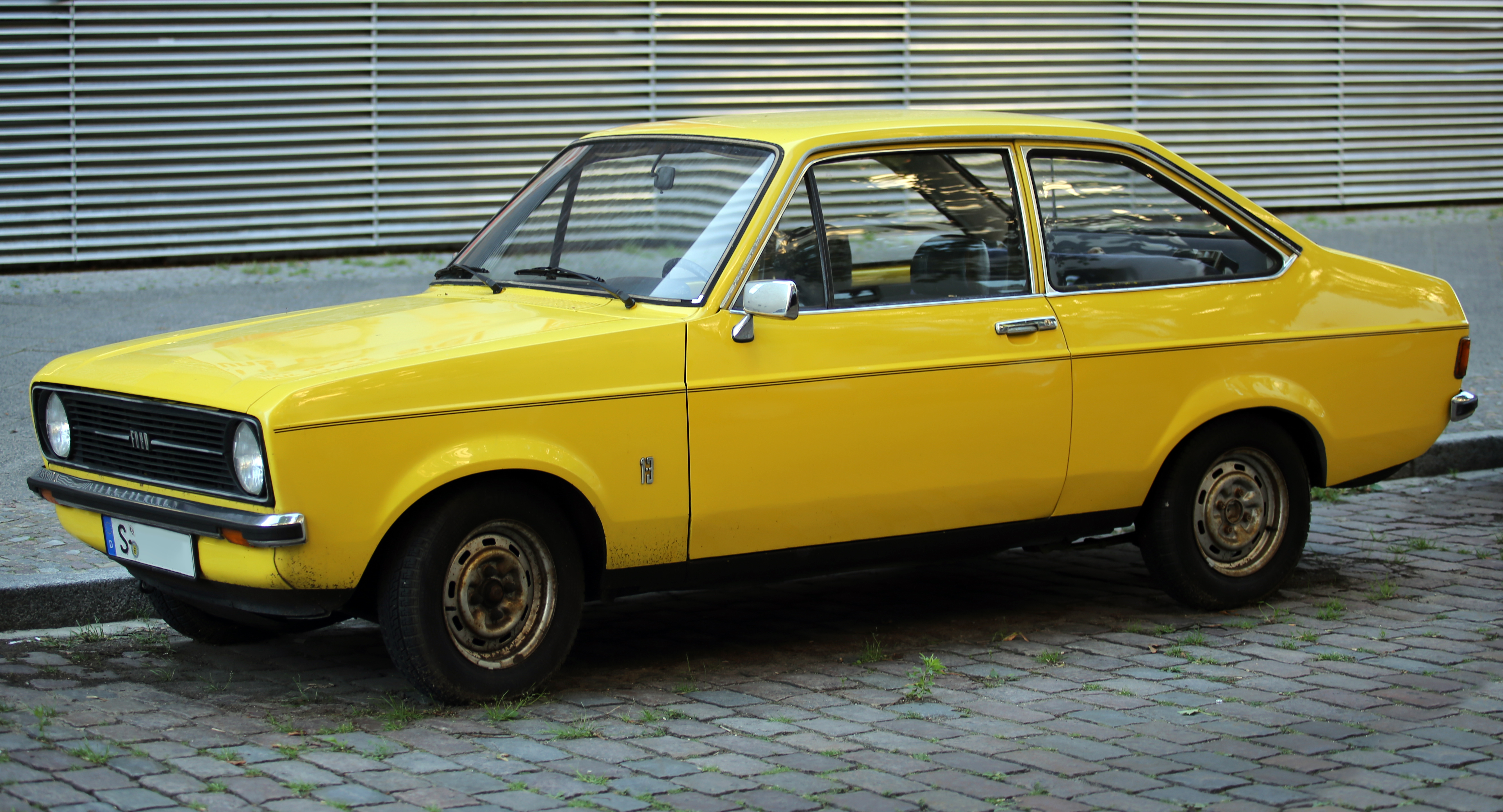 1977 Ford Escort 1.3 (base) two-door sedan.